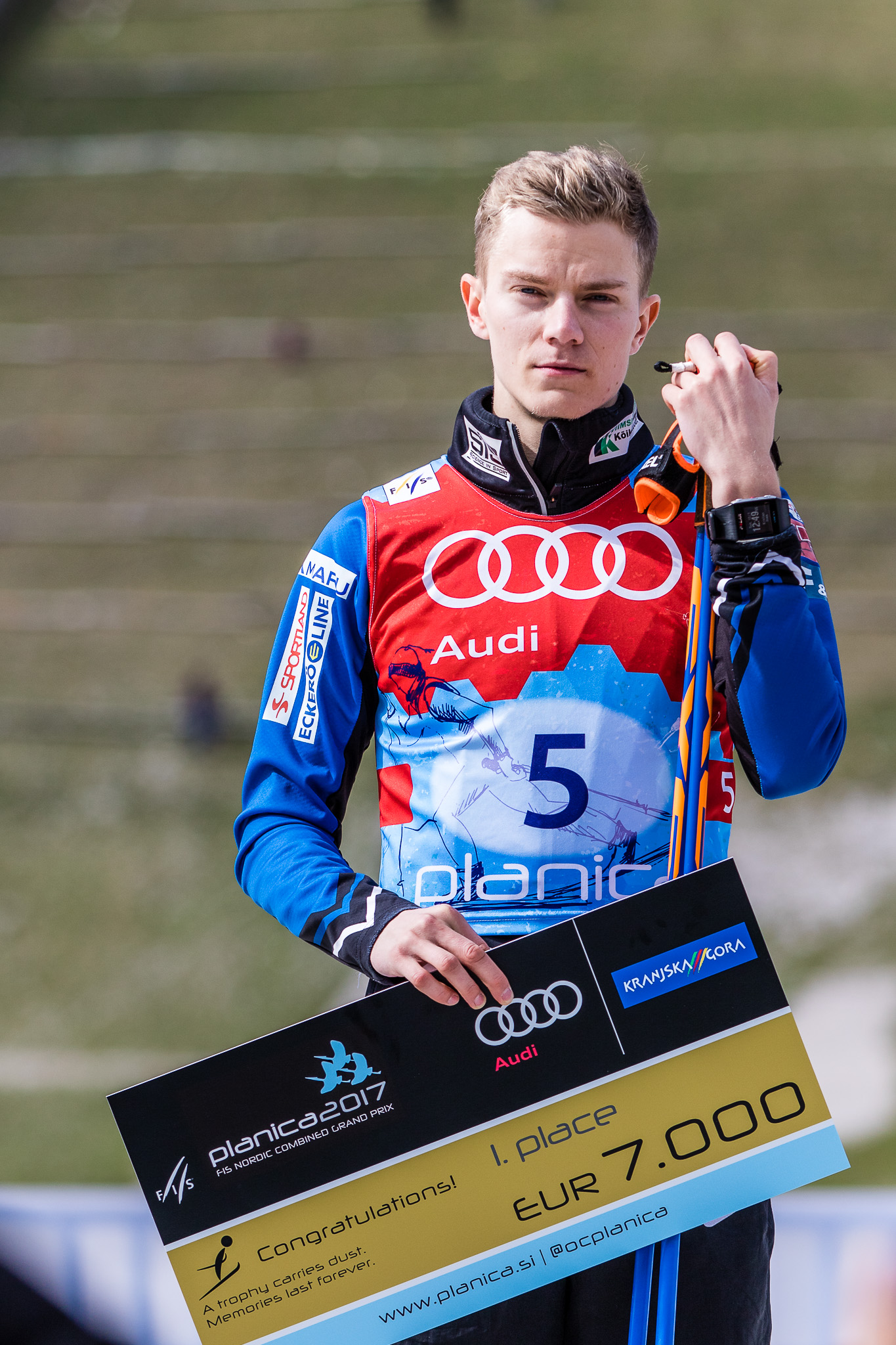 Summer Grand Prix Competition Planica 2017